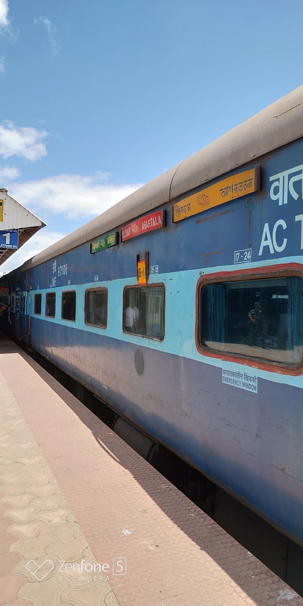 AC 3 Tier